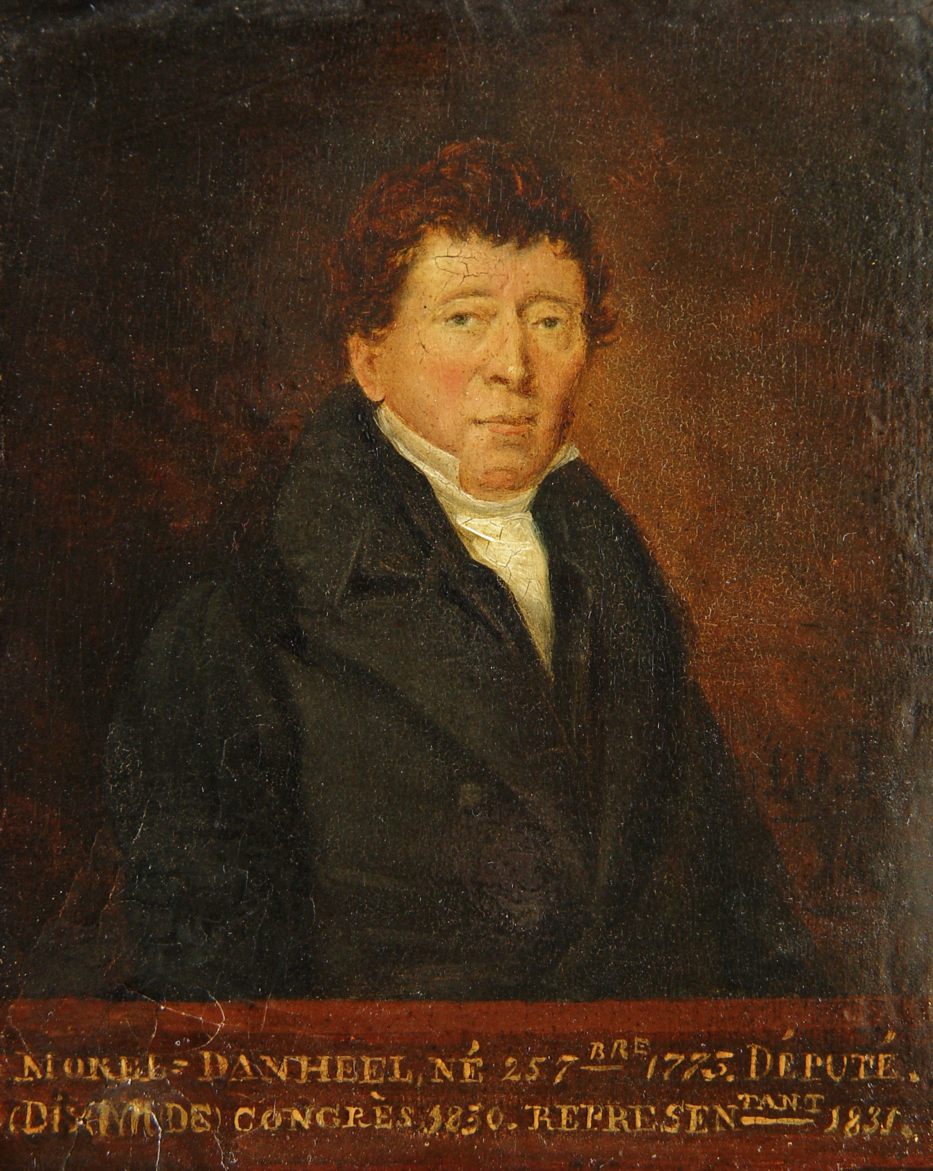 Portrait of Pierre Morel-Danheel (1773-1856), by an unknown painter